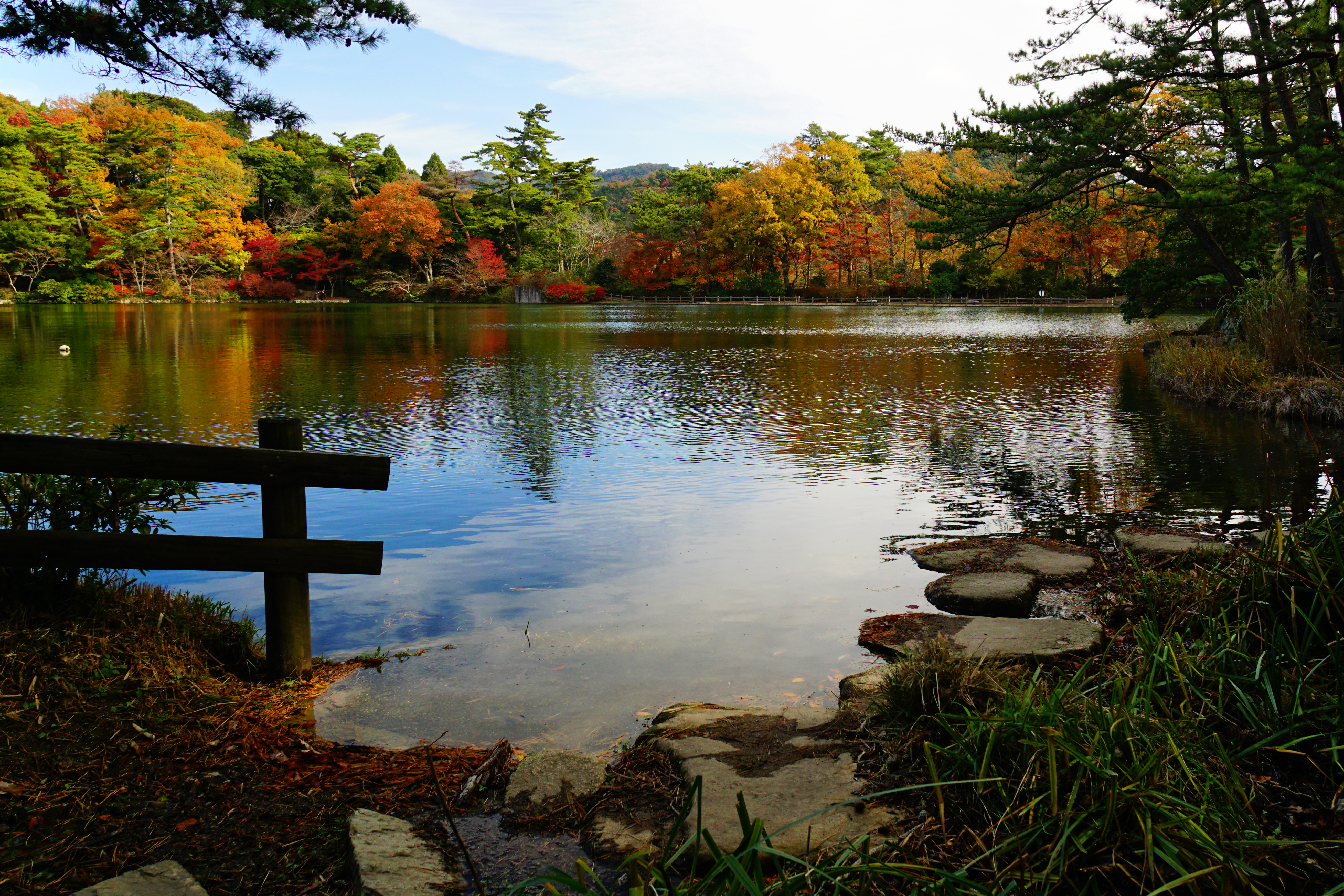 Futatabi Park in Kobe, Hyogo prefecture, Japan